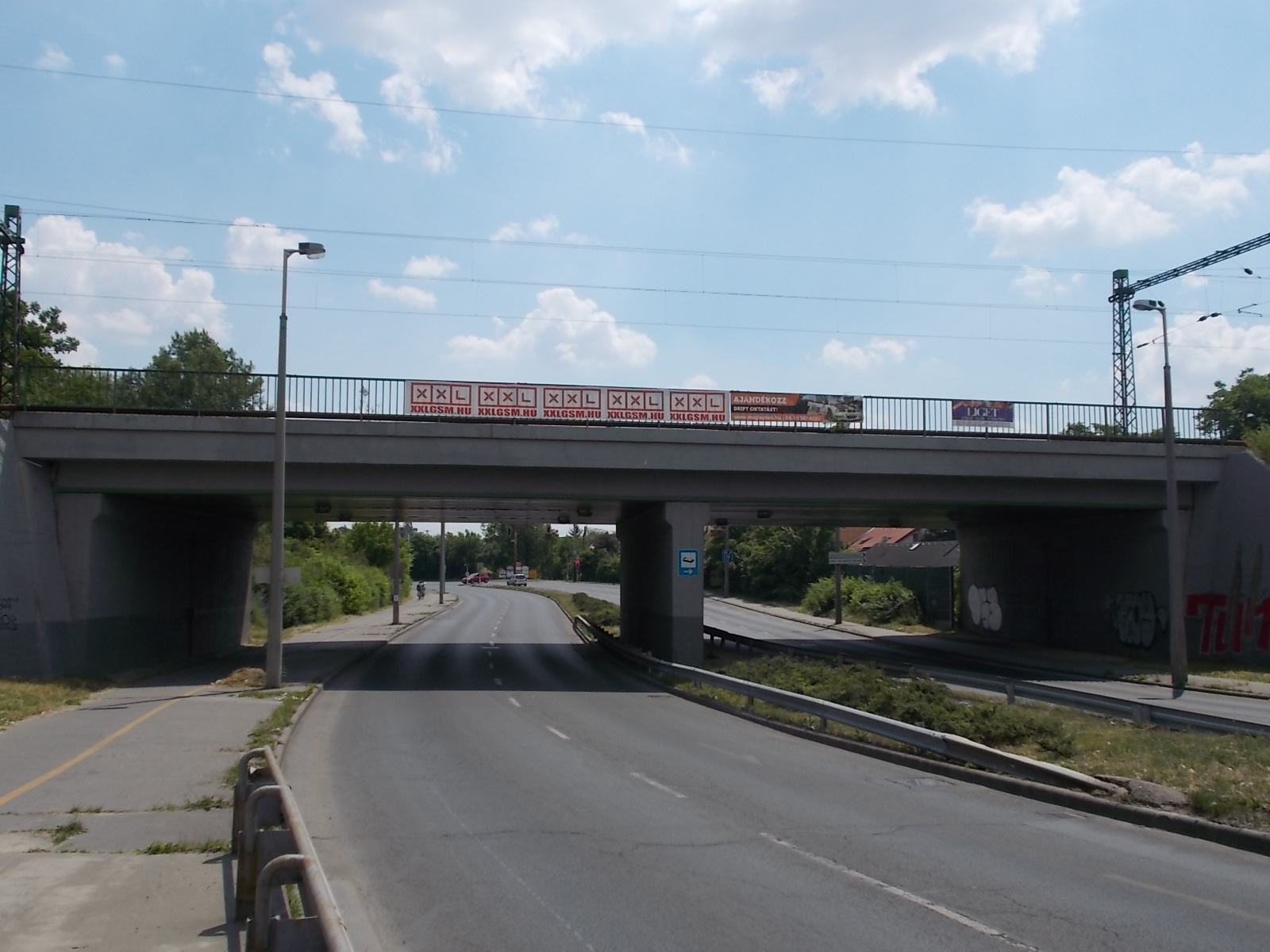 Budapest–Hegyeshalom–railway line, railway bridge over Egér út. - Kelenvölgy neighborhood, 11th district of Budapest.